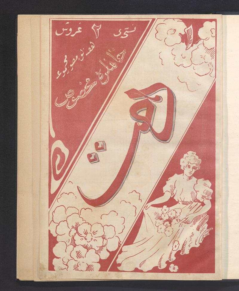 Cover of the first edition of the journal Demet (1908)